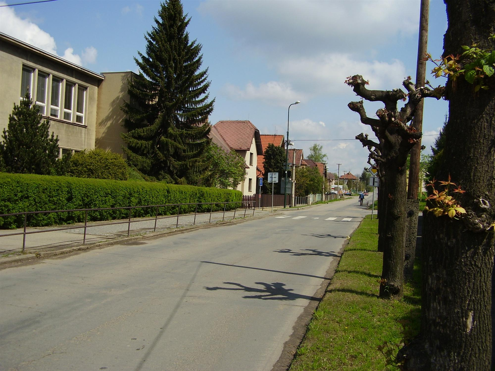 Main street in next to school in Čerčany